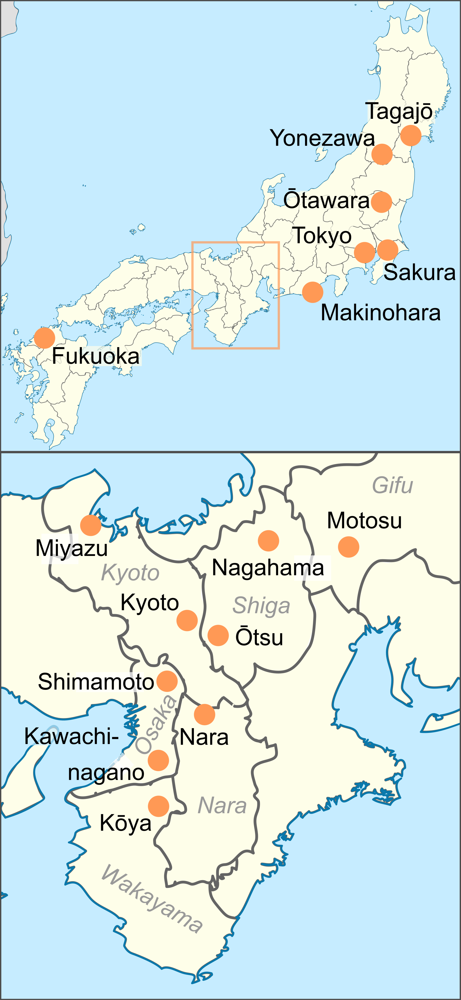 Map showing the location of National Treasures of Japan in the category ancient documents.